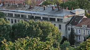 Sunset view of Vilnius Old Town from the Hill of Three Crosses.